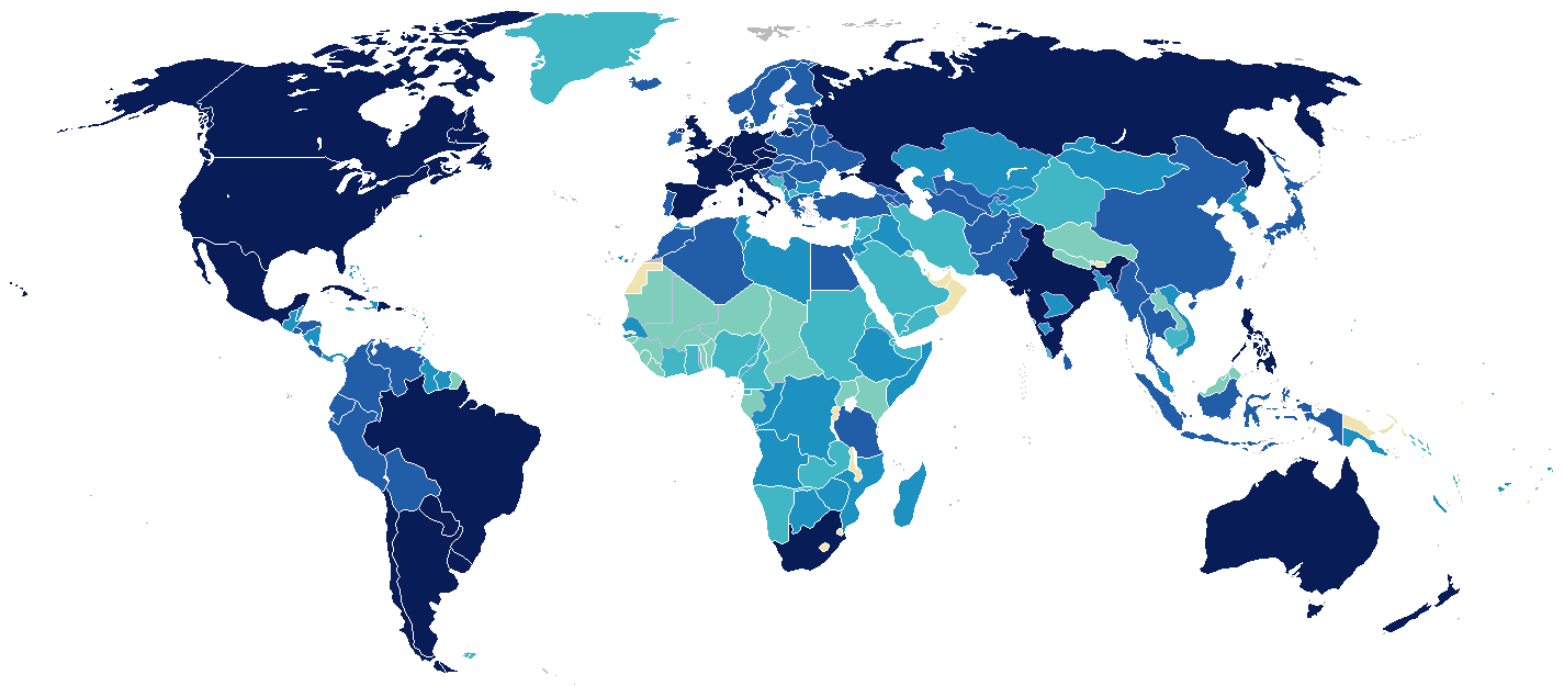 1920s, 1ˢᵗ half, or earlier 1920s, 2ⁿᵈ half 1930s 1940s 1950s 1960s or later No data